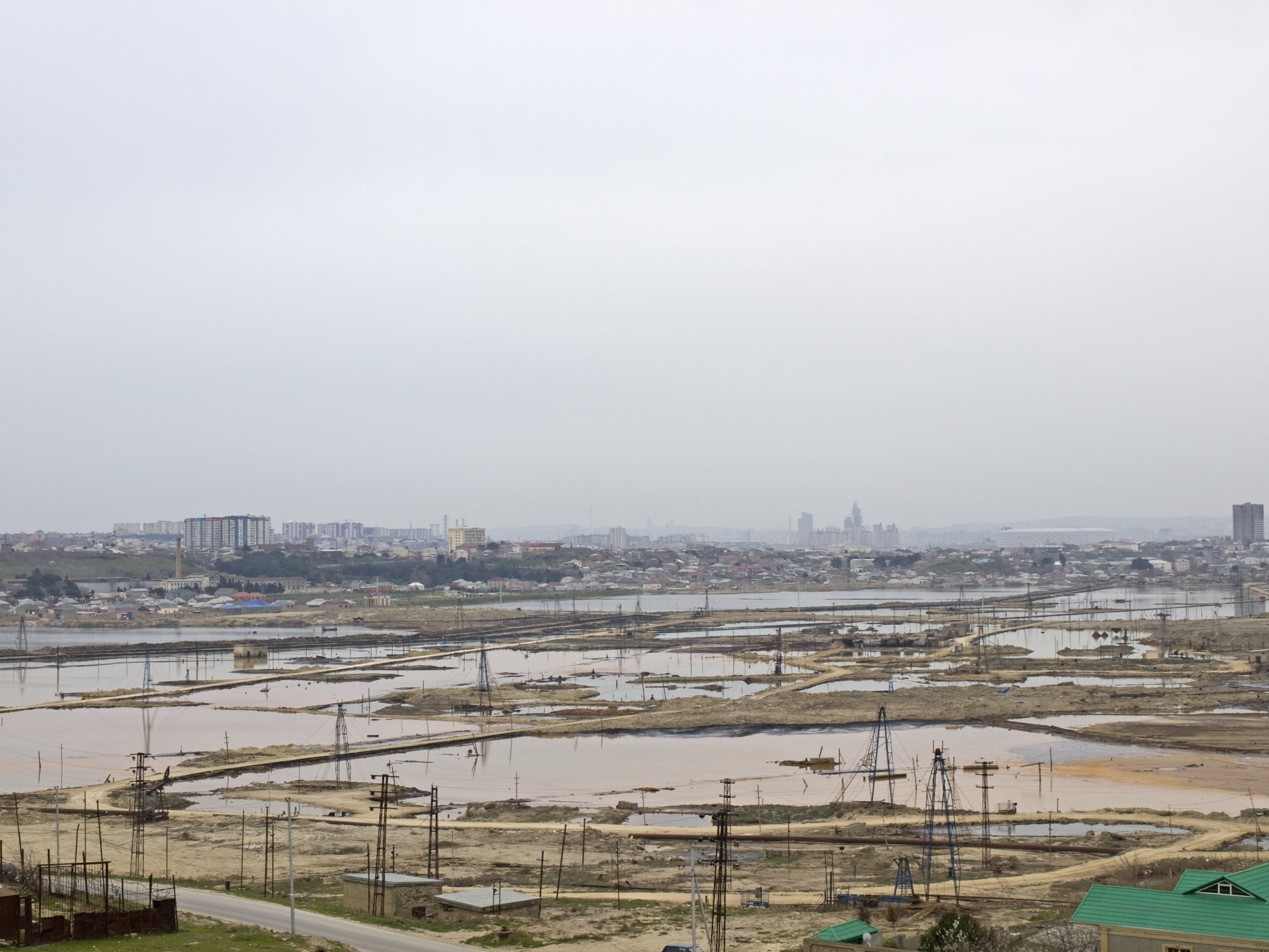 Absheron oil fields seen from Ramana Fortress